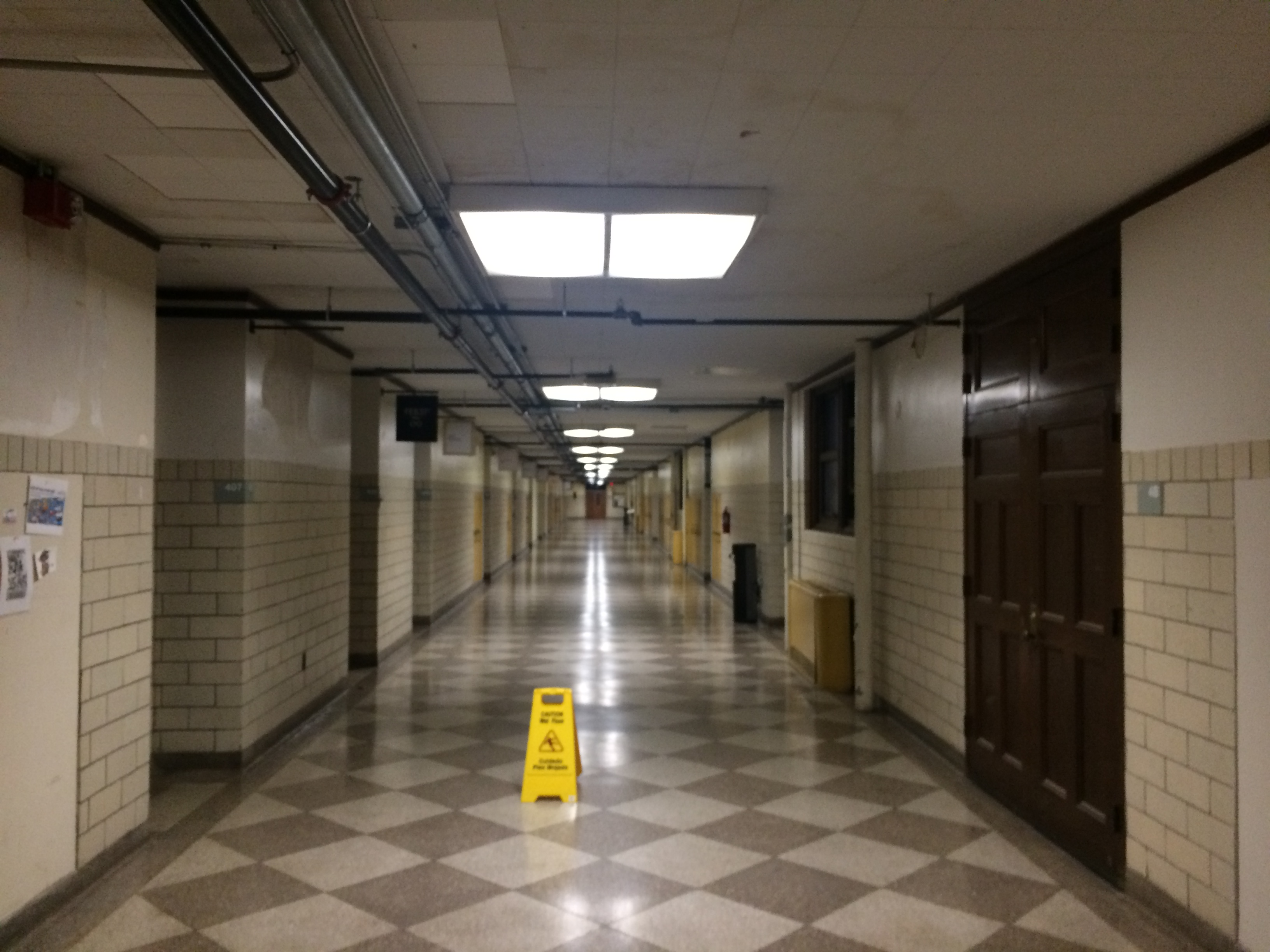 Corridor in the former Edward W. Bok Technical High School